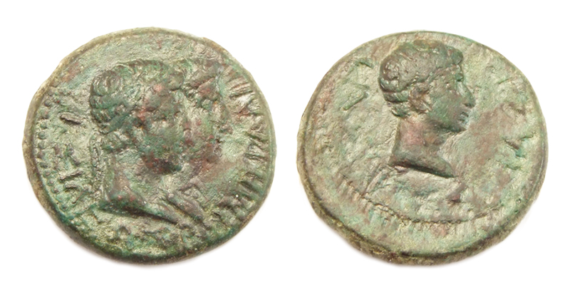 Roman Province, Kingdom of Thrace, AE 24, struck 11 BC - 12 AD. Obverse: Jugate heads of Rhoemetalces I and his Queen Pythodoris. Reverse: Bust of August to right.